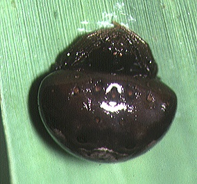 female Cyrtarachne nagasakiensis from Okinawa.